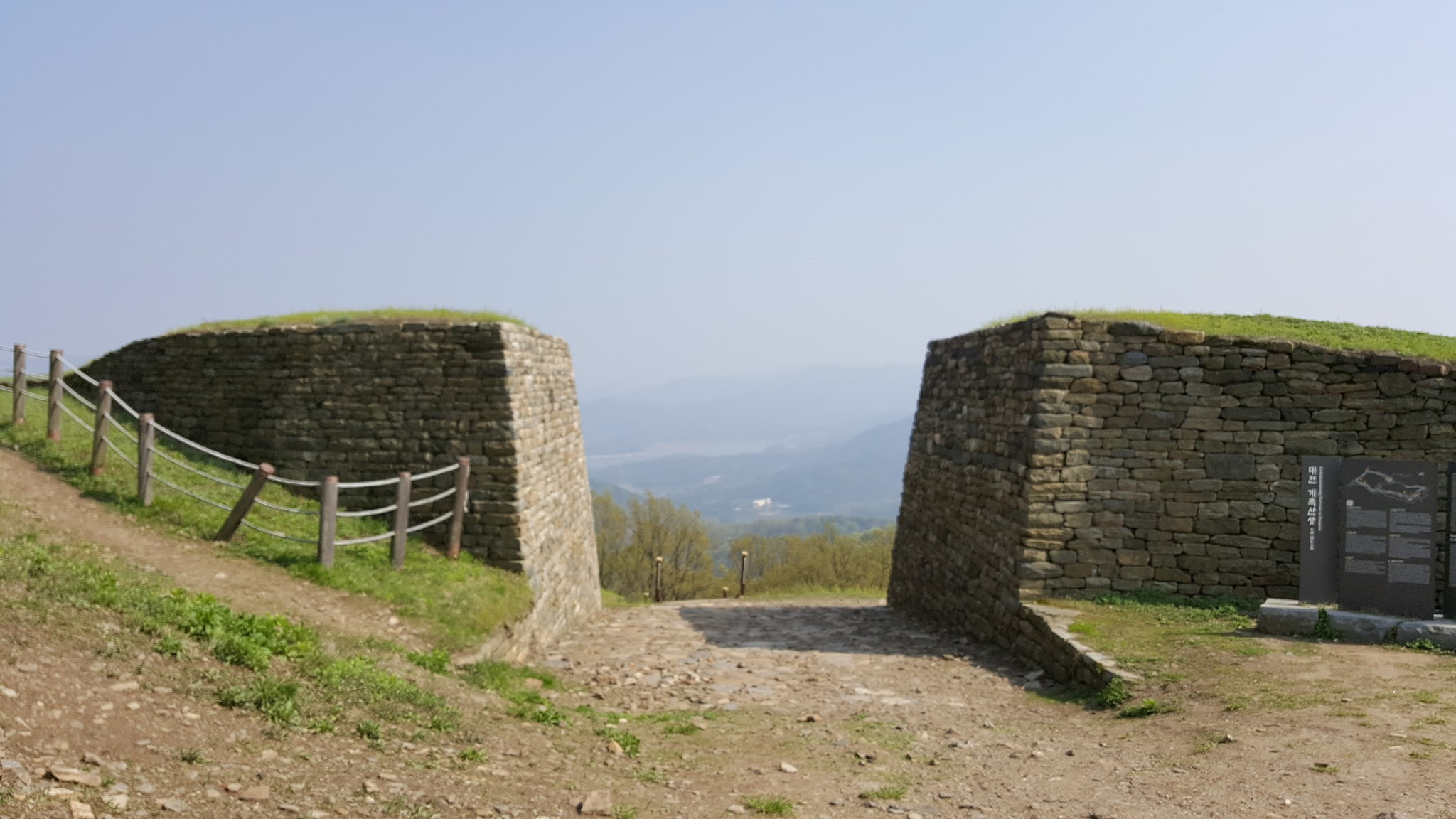 Main gate of Gyejok mountain fortress